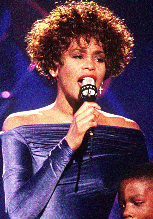 Whitney Houston performing "Greatest Love of All" during the HBO-televised concert "Welcome Home Heroes with Whitney Houston" honoring the troops, who took part in Operation Desert Storm, their families, and military and government dignitaries.